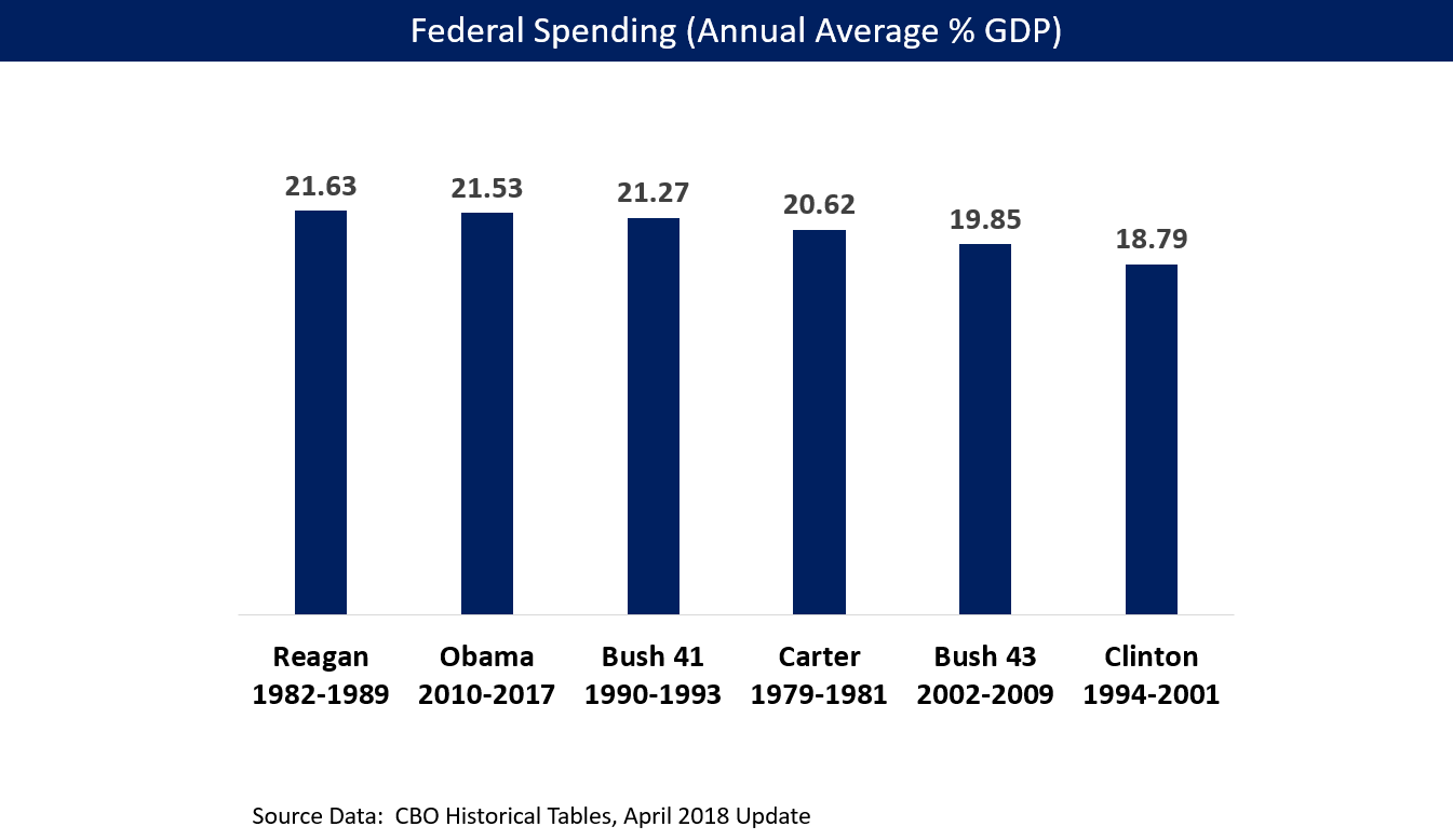 Federal spending by President from Carter through Obama, measured as annual average % GDP.